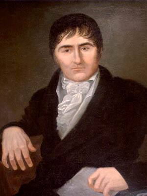 Louisiana State Museum